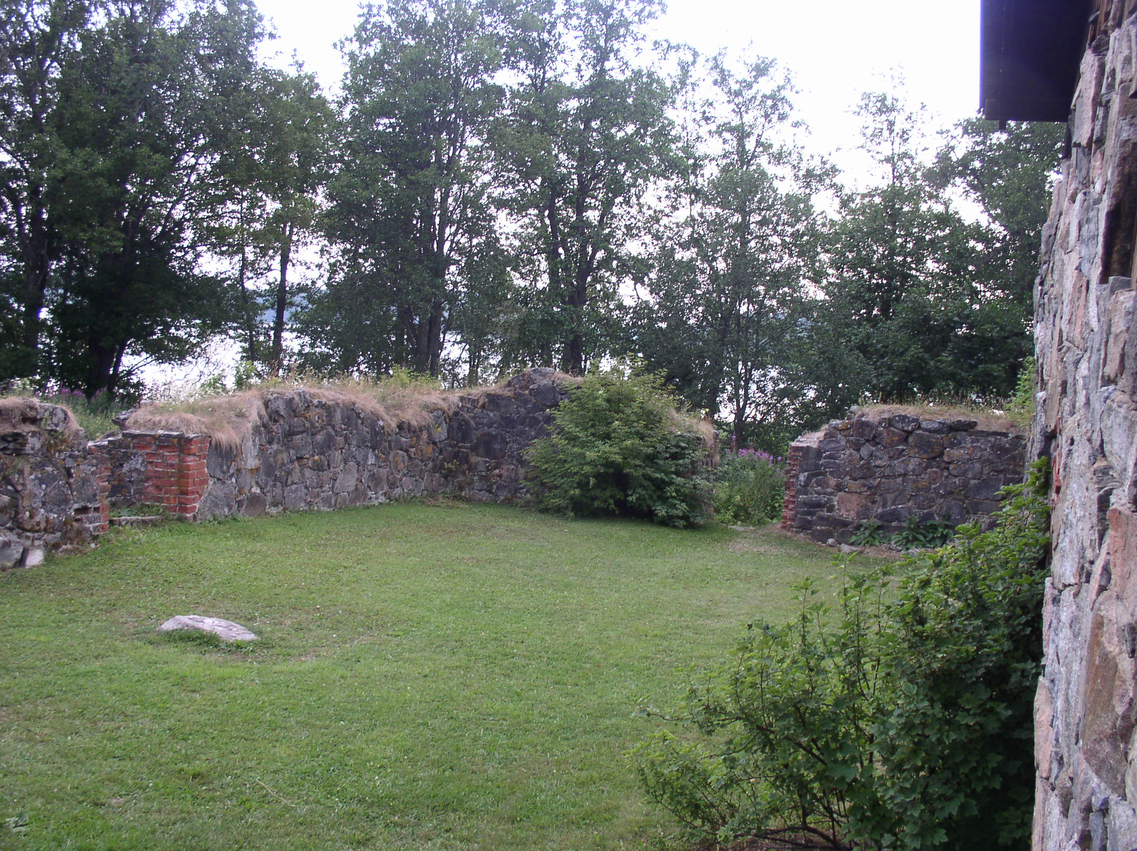 Ruins of the Vihti old church in Vihti, Finland.